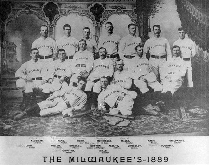 Studio photograph of 1889 Milwaukee Brewers baseball team of the Western Association. Players pictured include Billy Klusman, Ed Keas, Joseph Herr, Tom Morrissey, George McVey, Billy Nash, Luke(?) Schildknecht, Bobby Lowe, William Fuller, William Shenkel, Ezra Sutton, Gus Alberts, William Crossley, Tom Poorman, Clark Griffith and Lynn Mills.